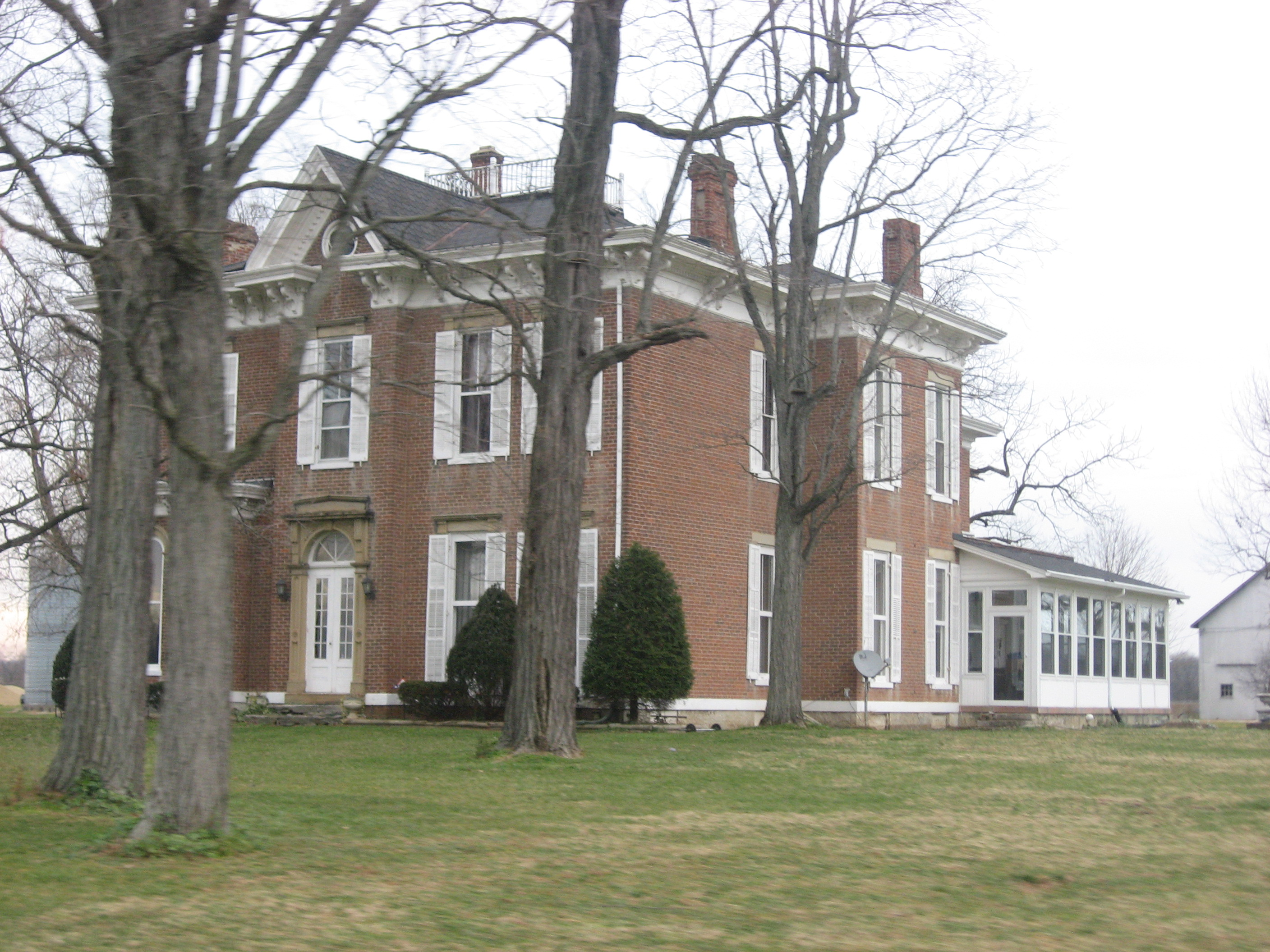 Roadside view of the Henry P. Deuscher House, located at 2385 Woodsdale Road south of Trenton in Madison Township, Butler County, Ohio, United States. Built in 1870, it is listed on the National Register of Historic Places.